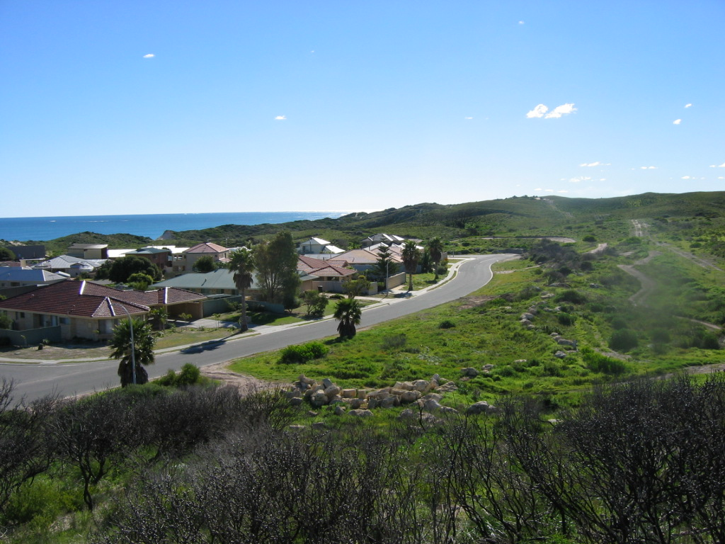 The northernmost point of Perth (Damepattie Dr/Sovereign Dr, Two Rocks). Beyond this point lies 4-wheel-drive tracks, beaches and the Shire of Gingin. Taken by self 14 July 2004.